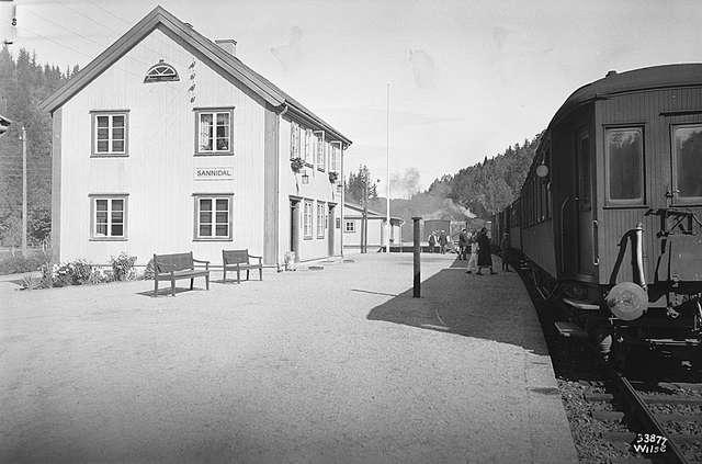 Sunnidal railway station on Kragerøbanen, Kragerø, Norway.